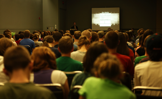 Image from Crystal Creek Media Film Camp in Richmond, Virginia.